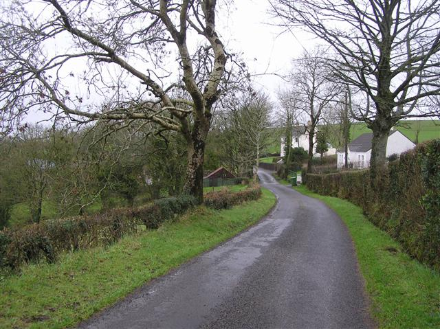 Road at Currin Heading north-east to Ballinamallard.